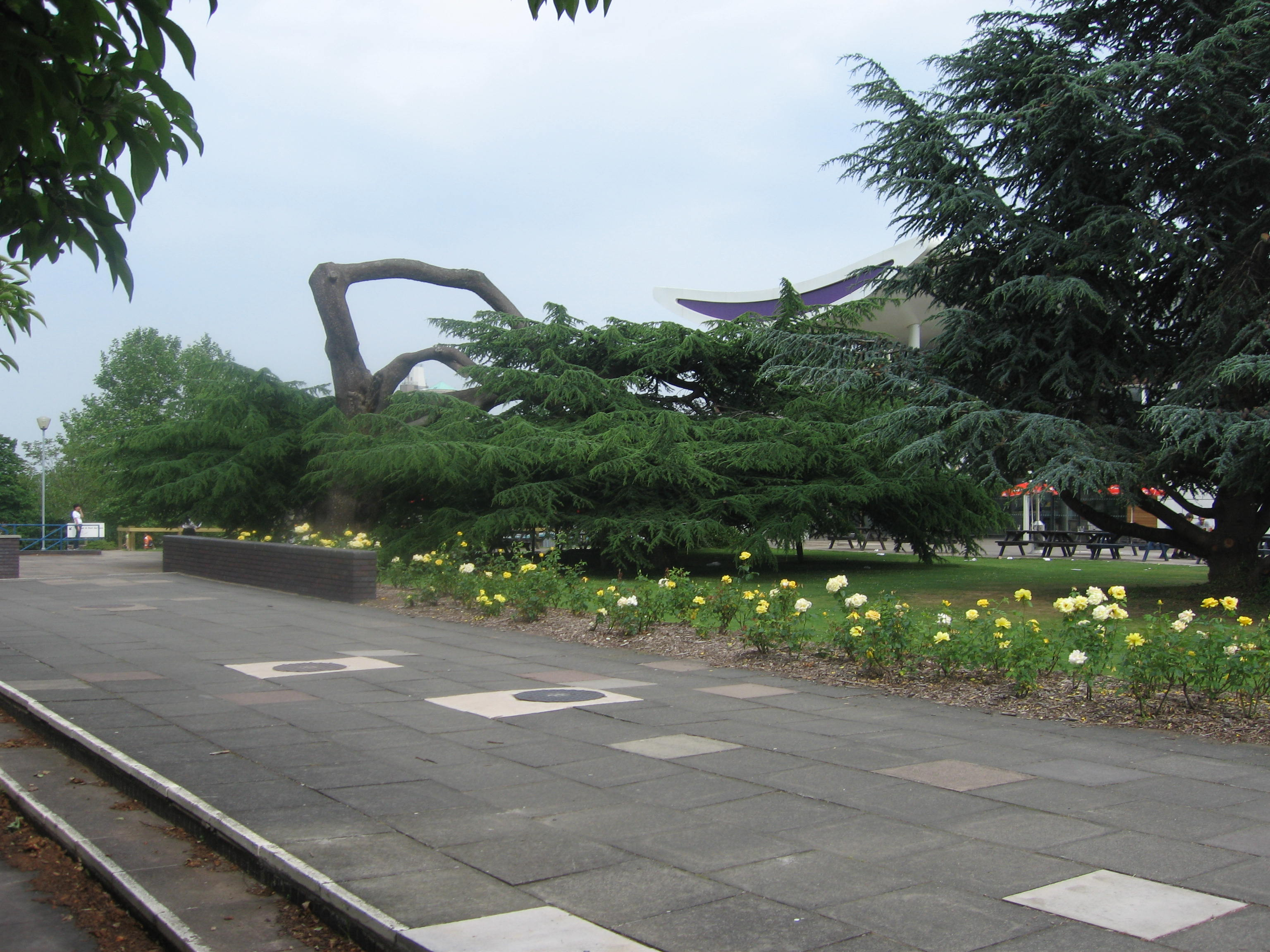 The Cedar of Lebanon tree at Loughborough University. Now surrounded by buildings of the modern University campus it once was a focal point of the Burleigh Estate.